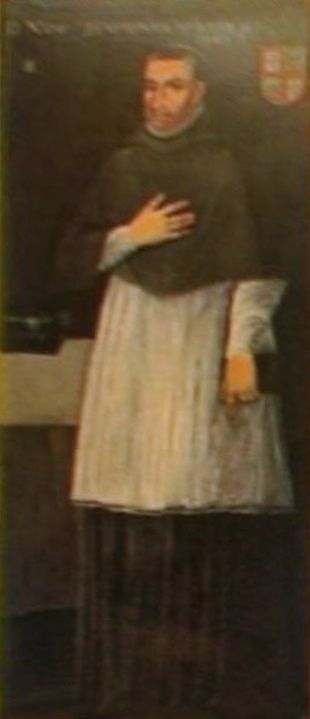 Nuno de Noronha, Rector of the University of Coimbra from 1578 to 1584.